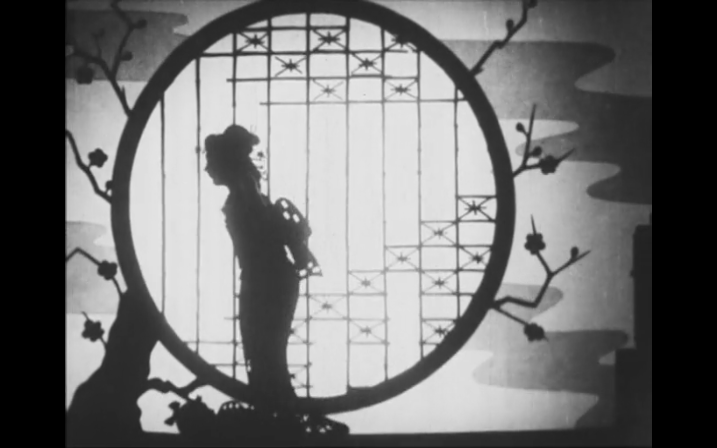 Scene from the film